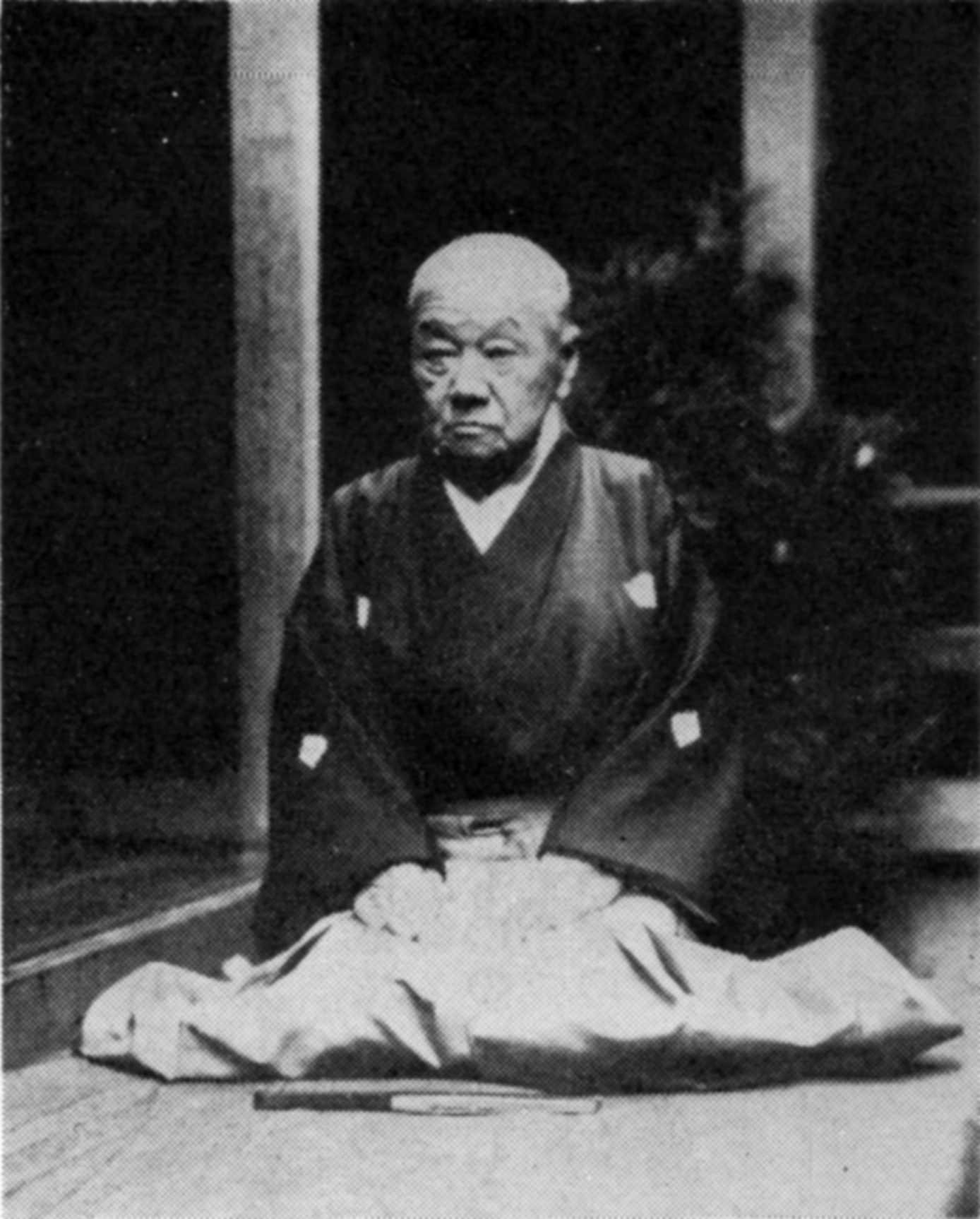 Japanese Noh actor Umewaka Minoru 1st(1828-1909)